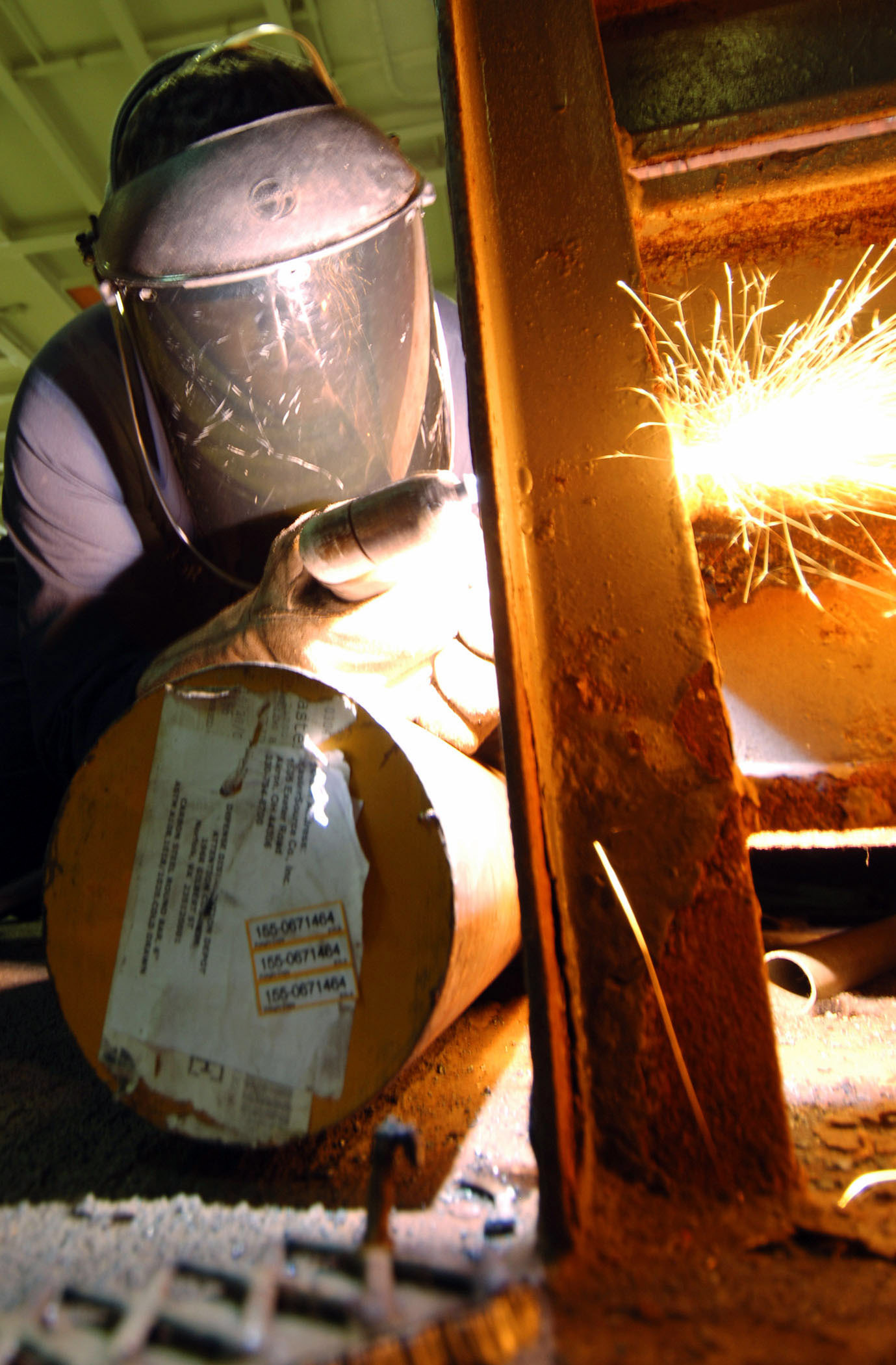 Portsmouth, Va. (Nov. 27, 2006) - Hull Maintenance Technician Fireman Justin Taylor cuts metal to clear space on board USS Harry S. Truman (CVN 75). Truman is currently conducting a docked planned incremental availability (PIA) at Norfolk Naval Shipyard and is scheduled to return to sea this fall. U.S. Navy photo by Mass Communication Specialist Seaman Kevin T. Murray Jr. (RELEASED)